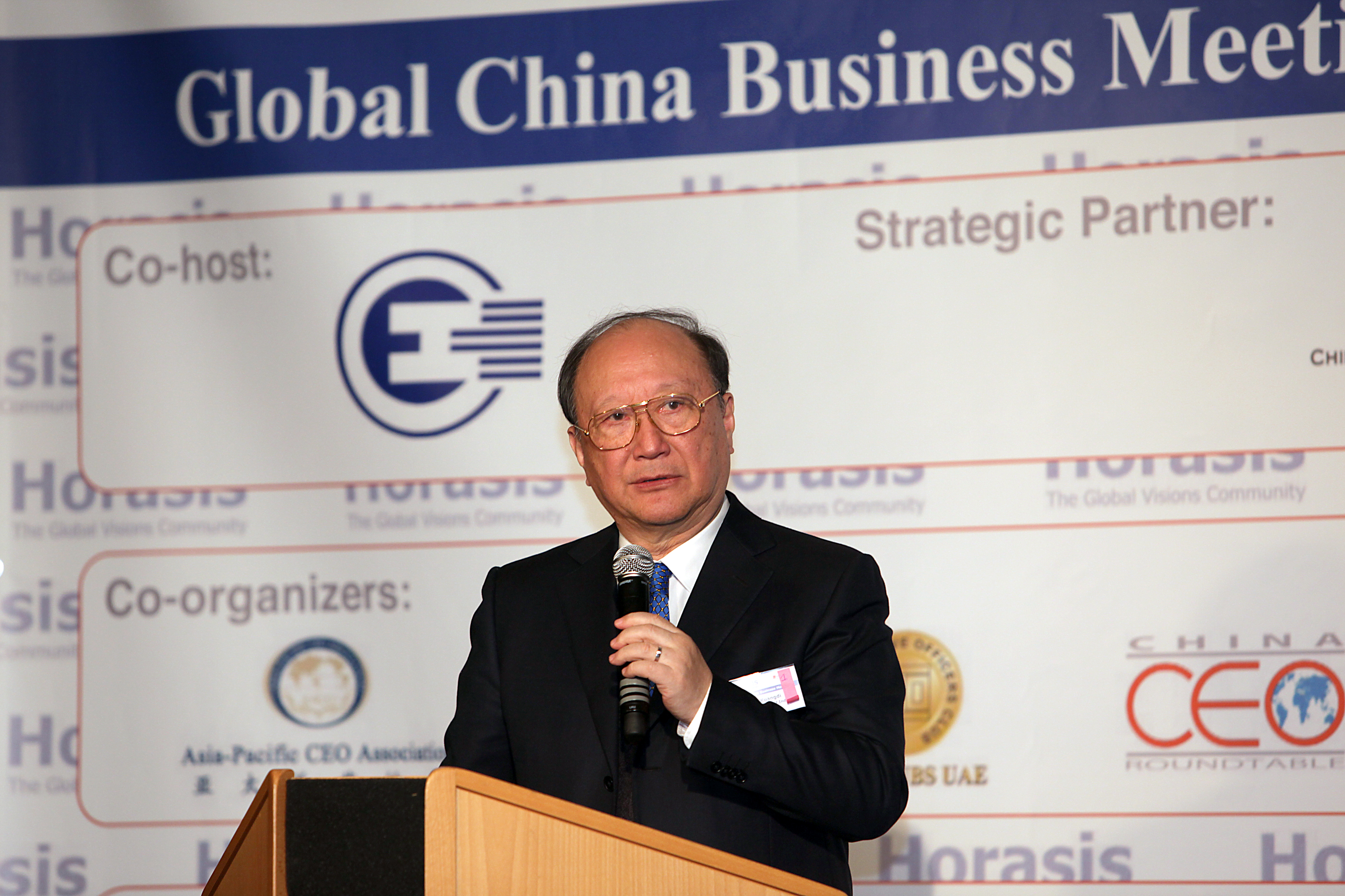 Xu Kuangdi, Vice Chairman, 10th CPPCC, on China's global momentum